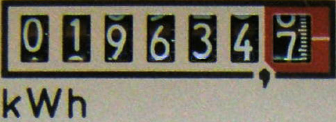 The mechanical counter in an electricity counter (Stromzähler).